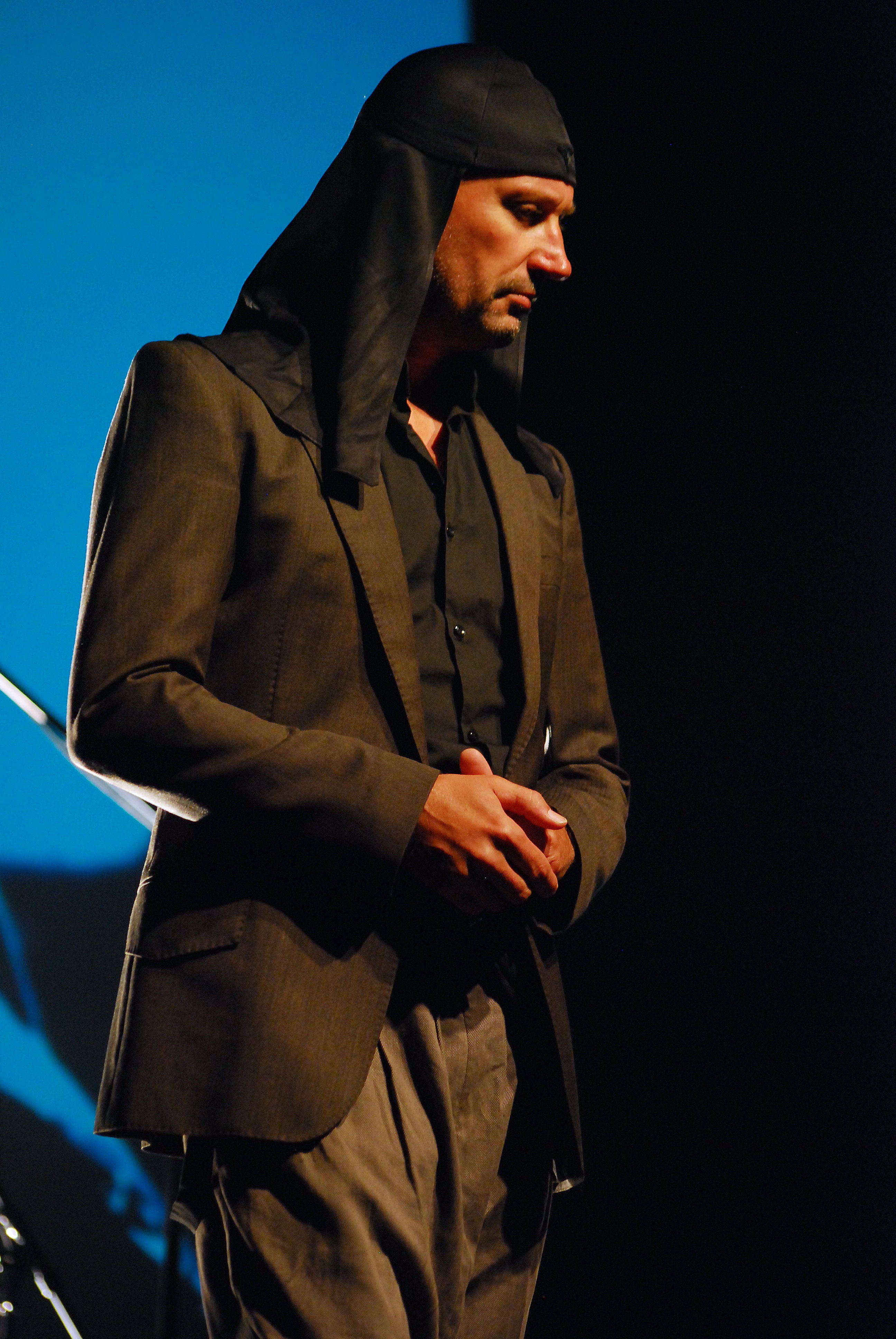 Taking of this photo was in cooperation with wRacku Festiwal